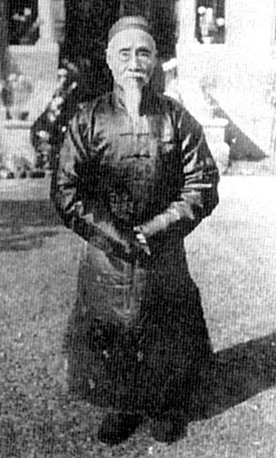 Zhao Fengchang (1856－1938)